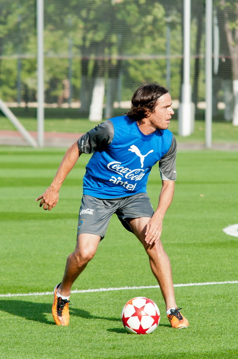 Álvaro Rafael González, Uruguayan player training before game against Ukraine, 2011